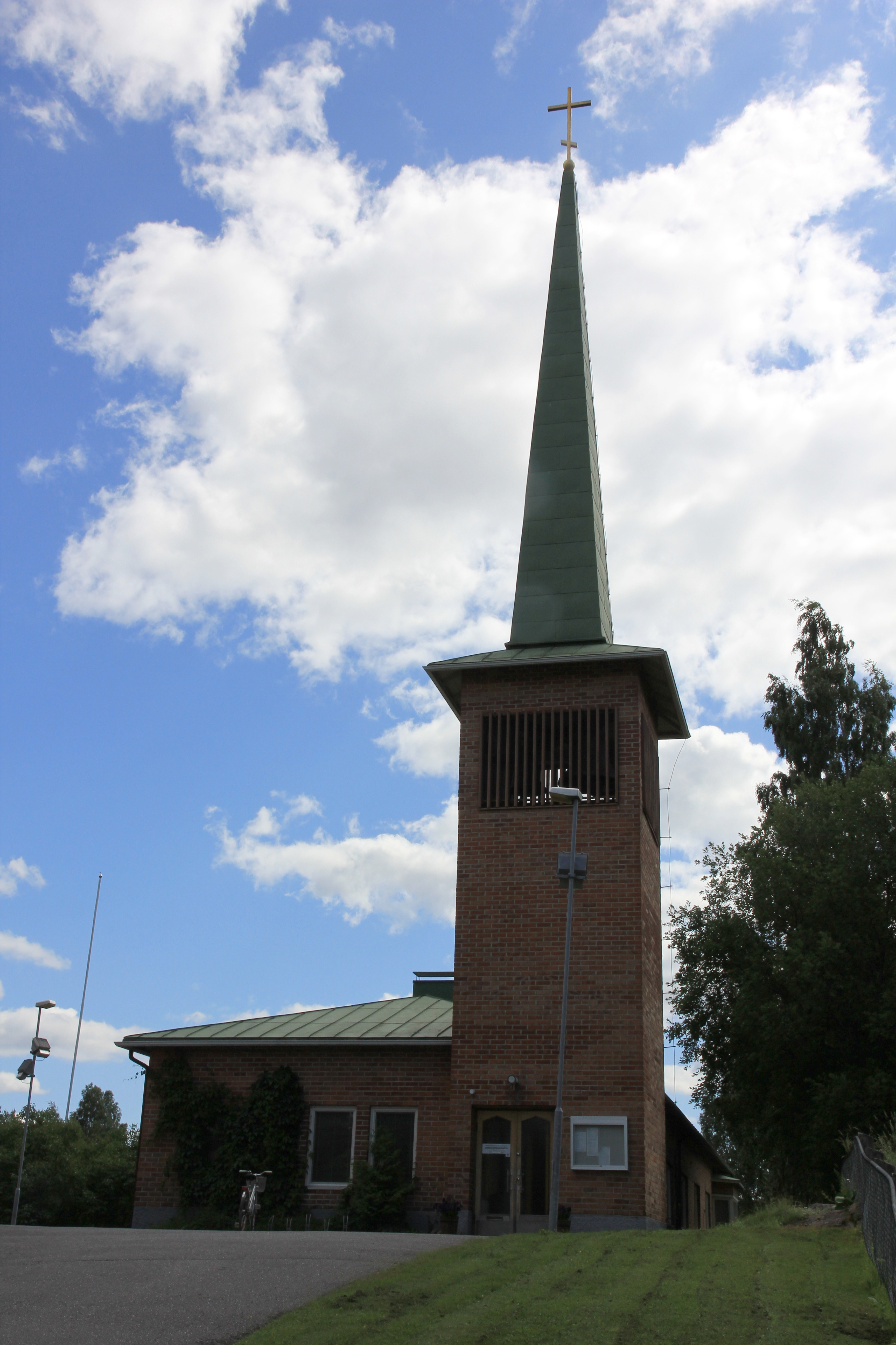 Archangel Michael orthodox church bell tower in Mikkeli.